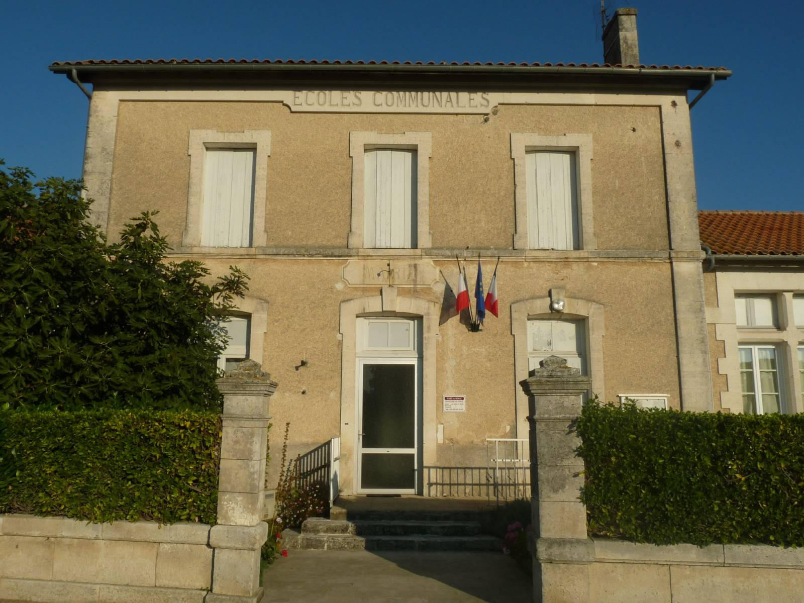 town hall of Nonac, Charente, SW France